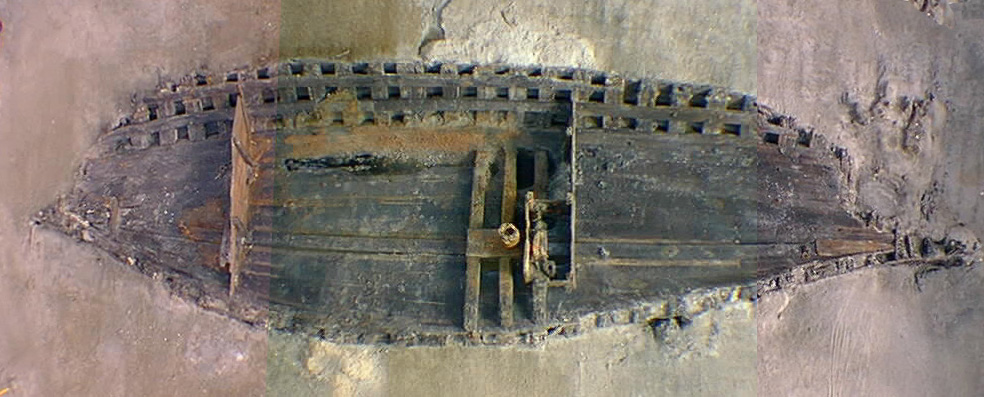 Composite image from three photographs looking down at the excavated wooden hull remains of the Belle shipwreck, excavated by the Texas Historical Commission in 1995. The photos were taken from the roof of the cofferdam which surrounded the ship and kept it in a semi-dry environment. All artifacts had been recovered from inside the hull before these photographs were taken. La Belle was the ship of French explorer La Salle, lost at Matagorda Bay in 1686 and discovered and excavated by the Texas Historical Commission from 1995 to 1997. The photographer was an archaeologist working on the project.